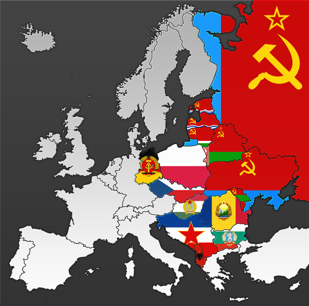 Eastern block flags during the cold war